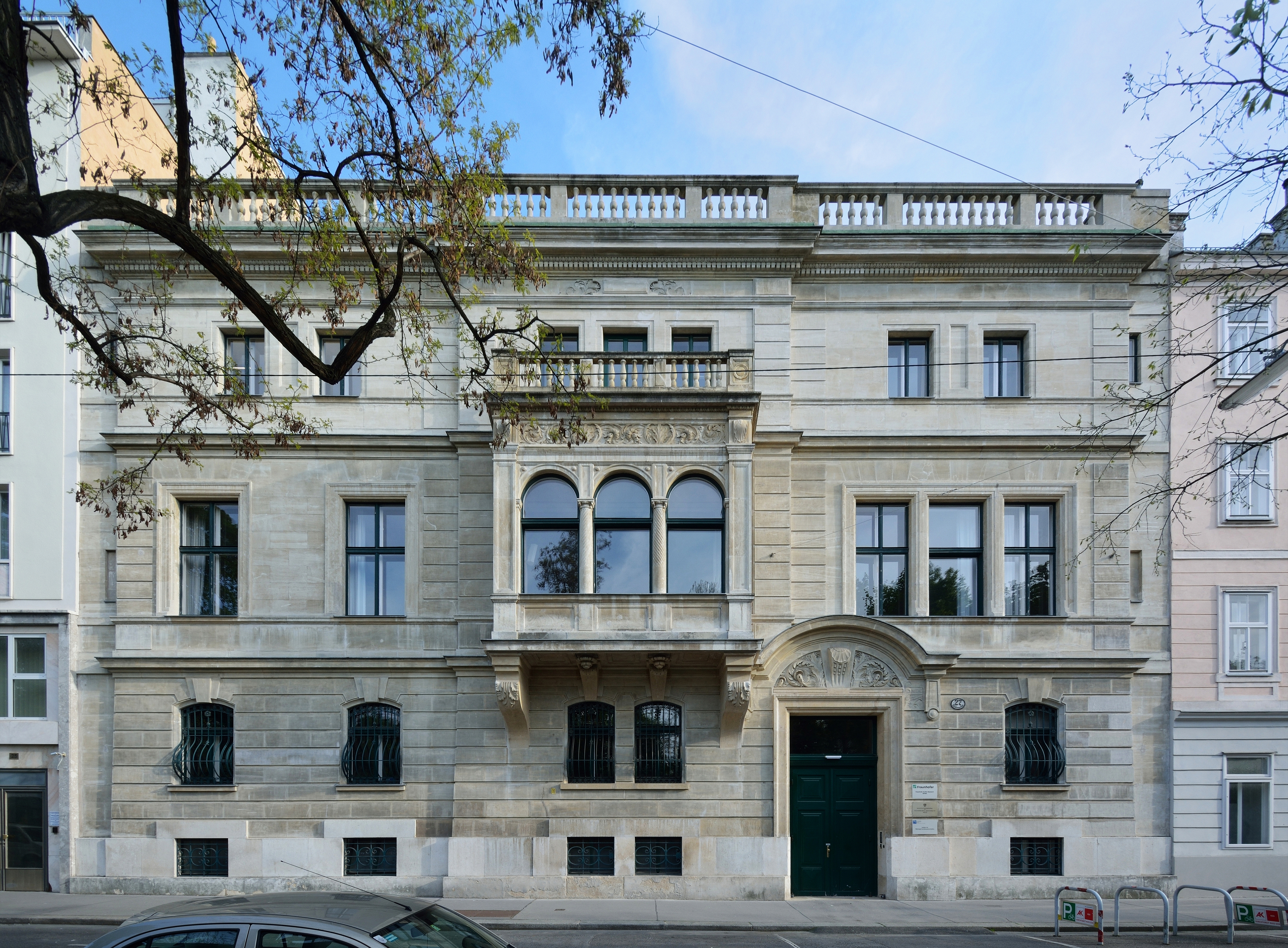 Palace Böhler, Theresianumgasse 27, 4th district of Vienna